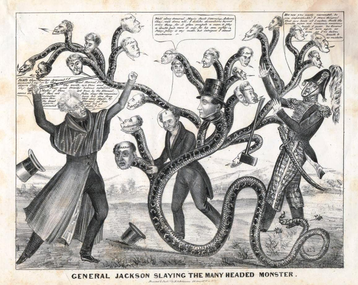 A satire on Andrew Jackson's campaign to destroy the Bank of the United States and its support among state banks. Jackson, Martin Van Buren, and Jack Downing struggle against a snake with heads representing the states. Jackson (on the left) raises a cane marked "Veto" and says, "Biddle thou Monster Avaunt!! avaount I say! or by the Great Eternal I'll cleave thee to the earth, aye thee and thy four and twenty satellites. Matty if thou art true...come on. if thou art false, may the venomous monster turn his dire fang upon thee..." Van Buren: "Well done General, Major Jack Downing, Adams, Clay, well done all. I dislike dissentions beyond every thing, for it often compels a man to play a double part, were it only for his own safety. Policy, policy is my motto, but intrigues I cannot countenance." Downing (dropping his axe): "Now now you nasty varmint, be you imperishable? I swan Gineral that are beats all I reckon, that's the horrible wiper wot wommits wenemous heads I guess..." The largest of the heads is president of the Bank Nicholas Biddle's, which wears a top hat labeled "Penn" (i.e. Pennsylvania) and "$45,000,000." This refers to the rechartering of the Bank by the Pennsylvania legislature in defiance of the adminstration's efforts to destroy it.